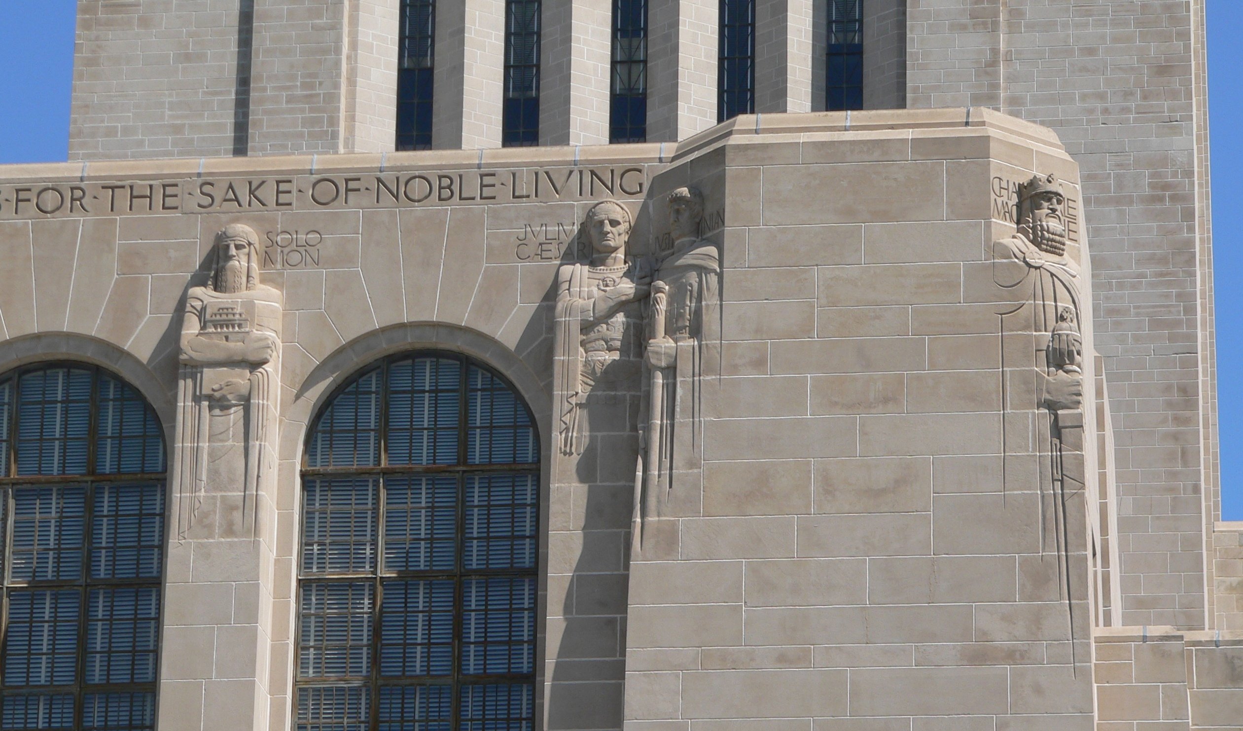 Nebraska State Capitol in Lincoln, Nebraska: southeast corner of south pavilion. Sculpted figures from left to right are Solomon, Julius Caesar, Justinian, and Charlemagne.